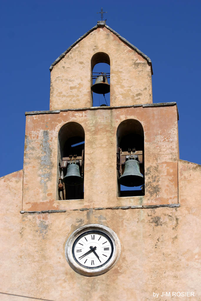 Bells of the church, village of Flassan, Vaucluse, France